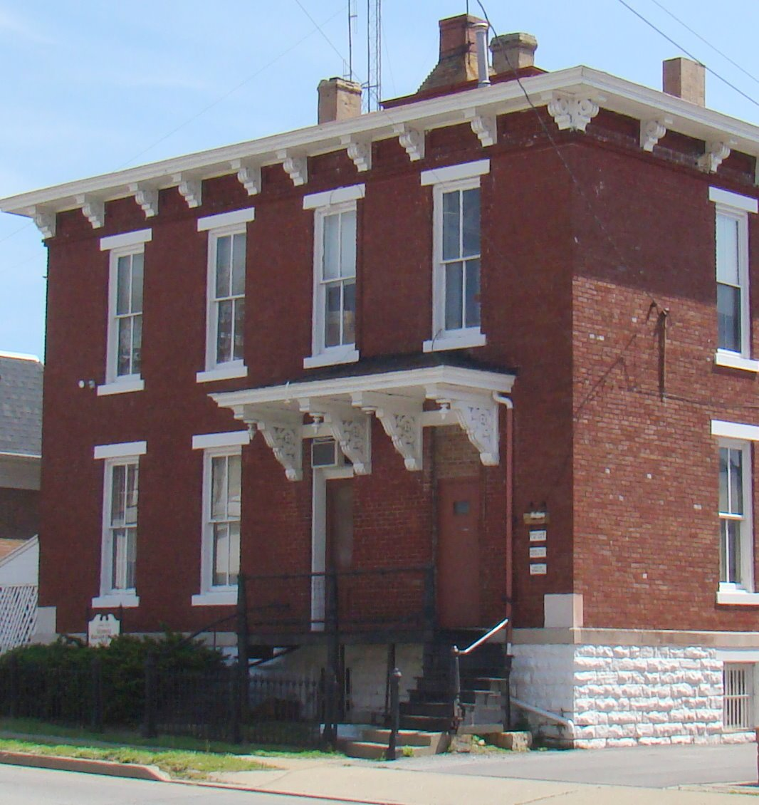 The Old Garrard County Jail located in Lancaster, Kentucky.